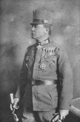 Baron Hermann von Kövess of Kövessháza, Field Marshal of the K.u.K. Austro-Hungarian Army, the last supreme commander of the armed forces of the Austro-Hungarian Monarchy